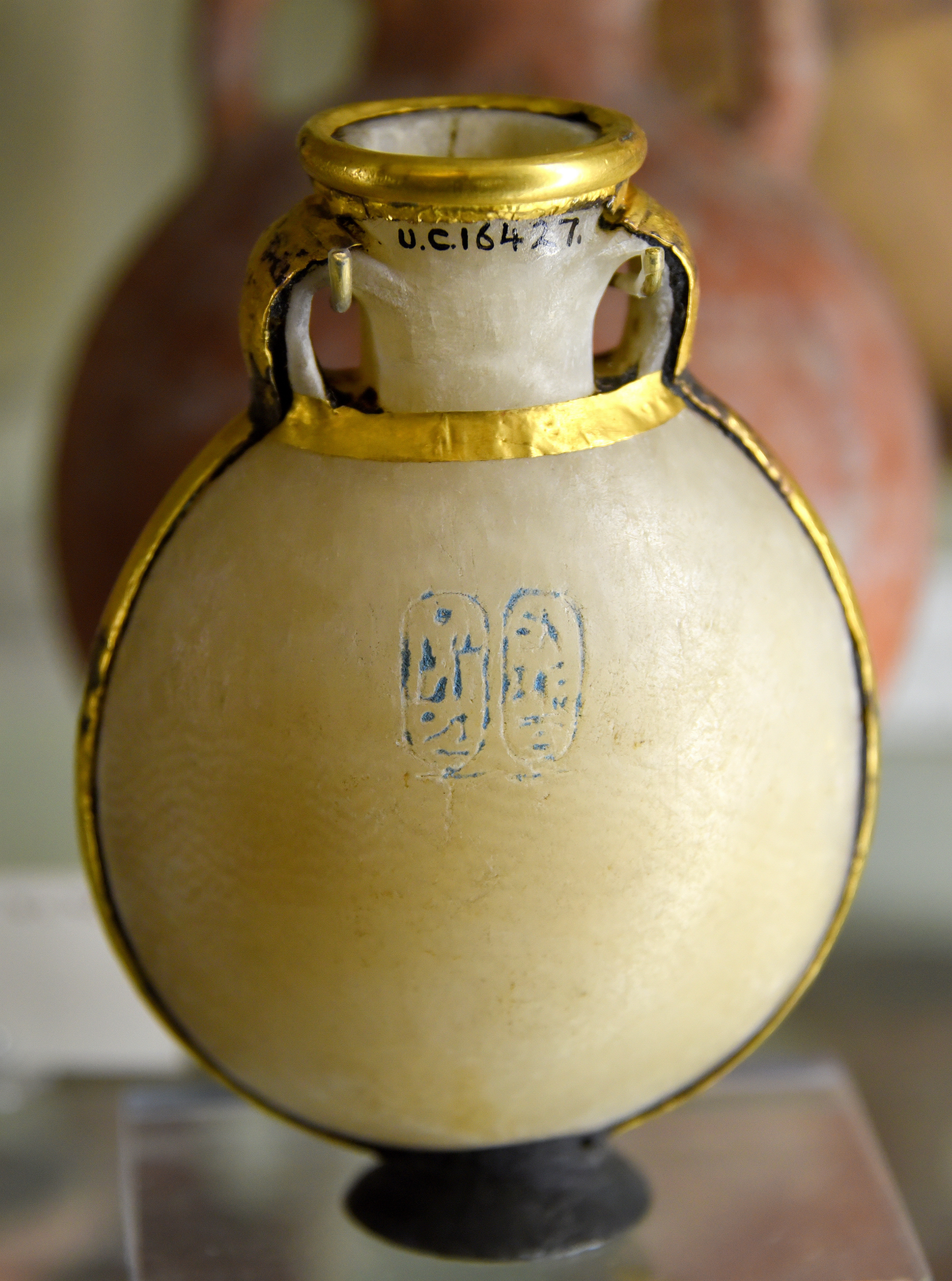 Pilgrim bottle. Alabaster, gold-mounted with a silver foot. Inscribed with cartouches of Ramesses II and Nefertari. 19th Dynasty. From Thebes, Egypt. The Petrie Museum of Egyptian Archaeology, London. With thanks to the Petrie Museum of Egyptian Archaeology, UCL.